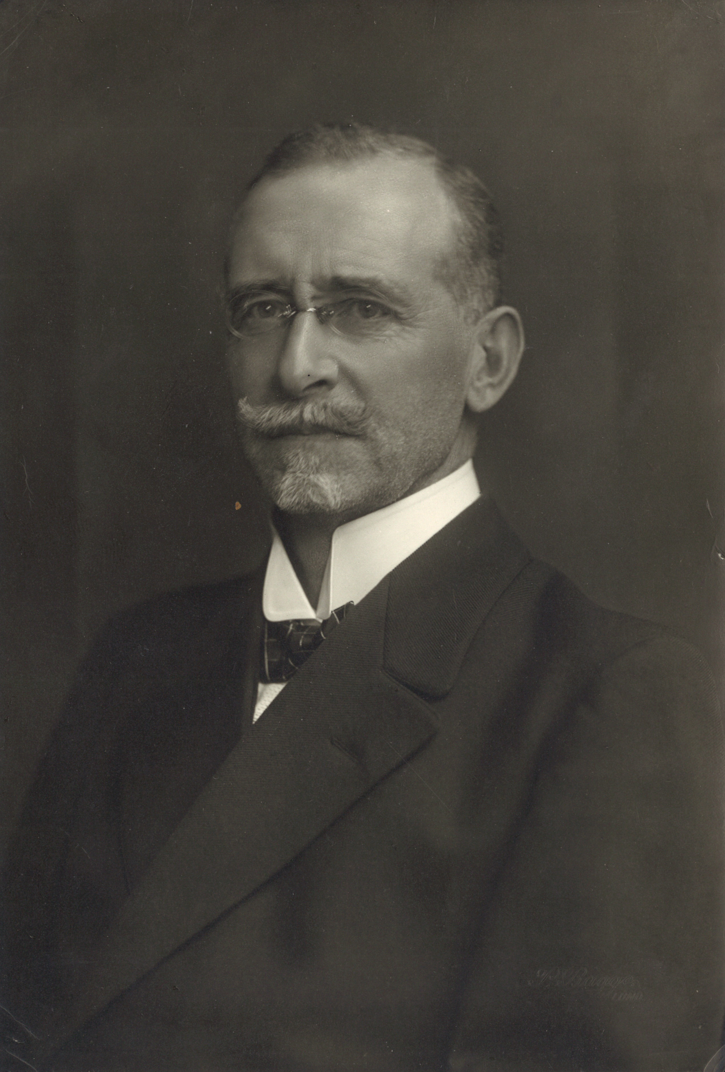 Emanuel Walberg (1873-1951), Swedish linguist and professor at Lund University.